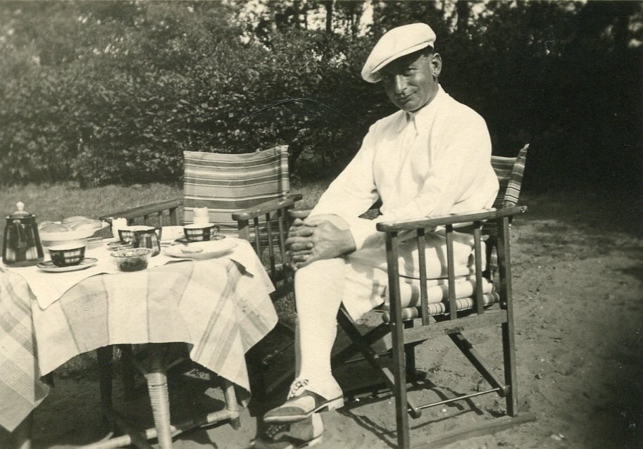 Kurt Dietrich Losch (1859–1927) studied at the academie of science in Koenigsberg/ Prussia todays Kaliningrad-Russia. His teacher was Heinrich Wolff, later on Georg Ludwig Meyn